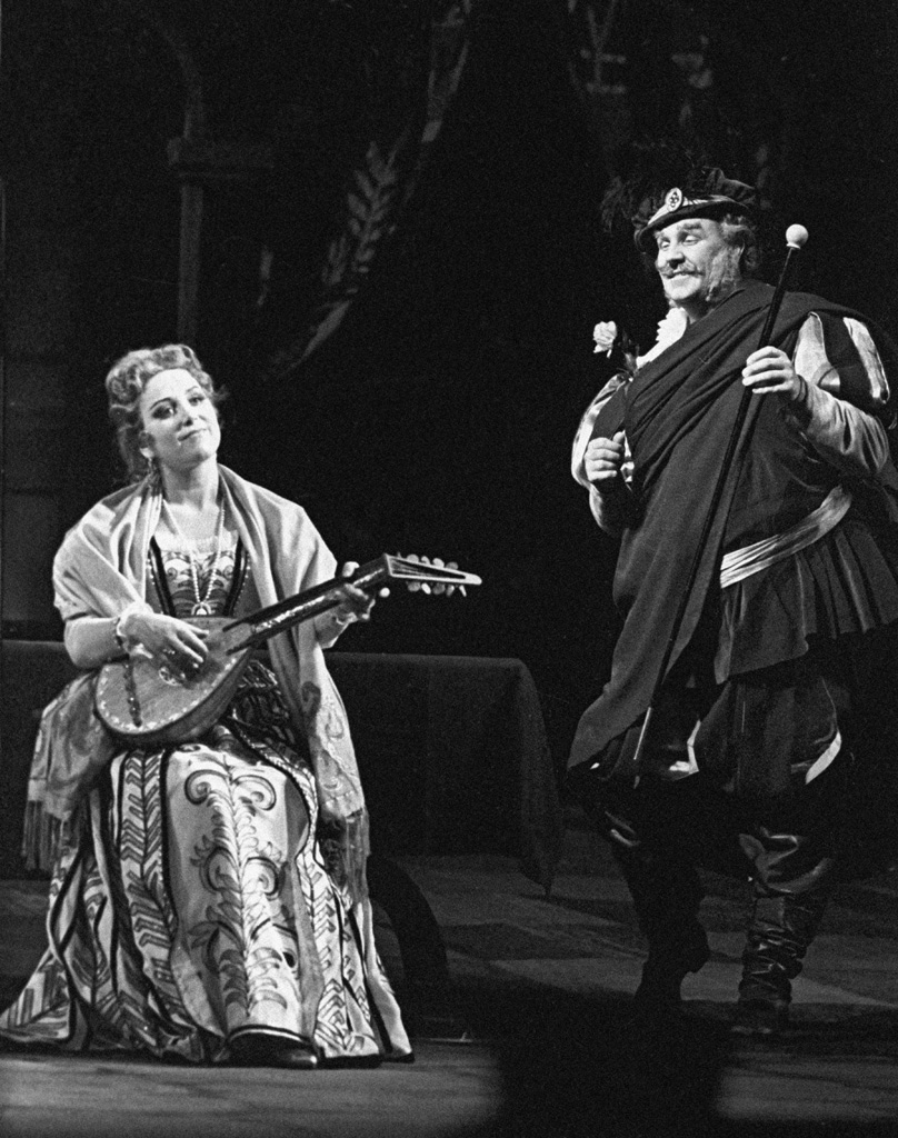 “Viktor Nechipaylo and Tamara Milashkina in Giuseppe Verdi's Falstaff opera”. Viktor Nechipaylo as Falstaff and Tamara Milashkina as Alice Ford in Giuseppe Verdi Falstaff opera. The USSR Bolshoi Theater (currently, the State Academic Opera and Ballet Theater of Russia).